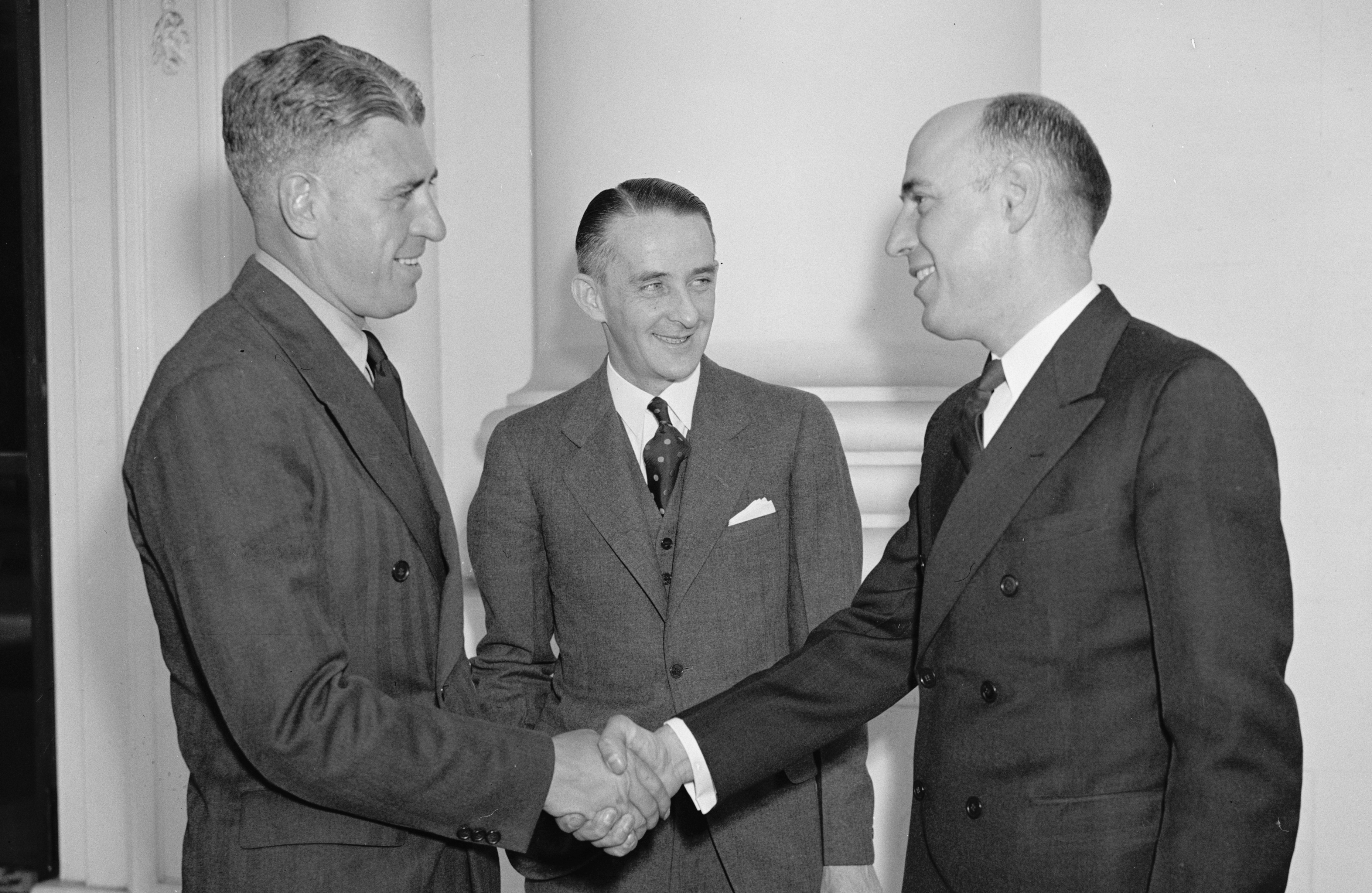 Outgoing White House Chief Usher Raymond Muir (left) shakes hands with his successor, Howell Crim (right) at the White House in Washington, D.C. Charles Claunch, a newly appointed usher, looks on.